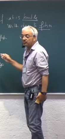 Mebkhout giving a talk